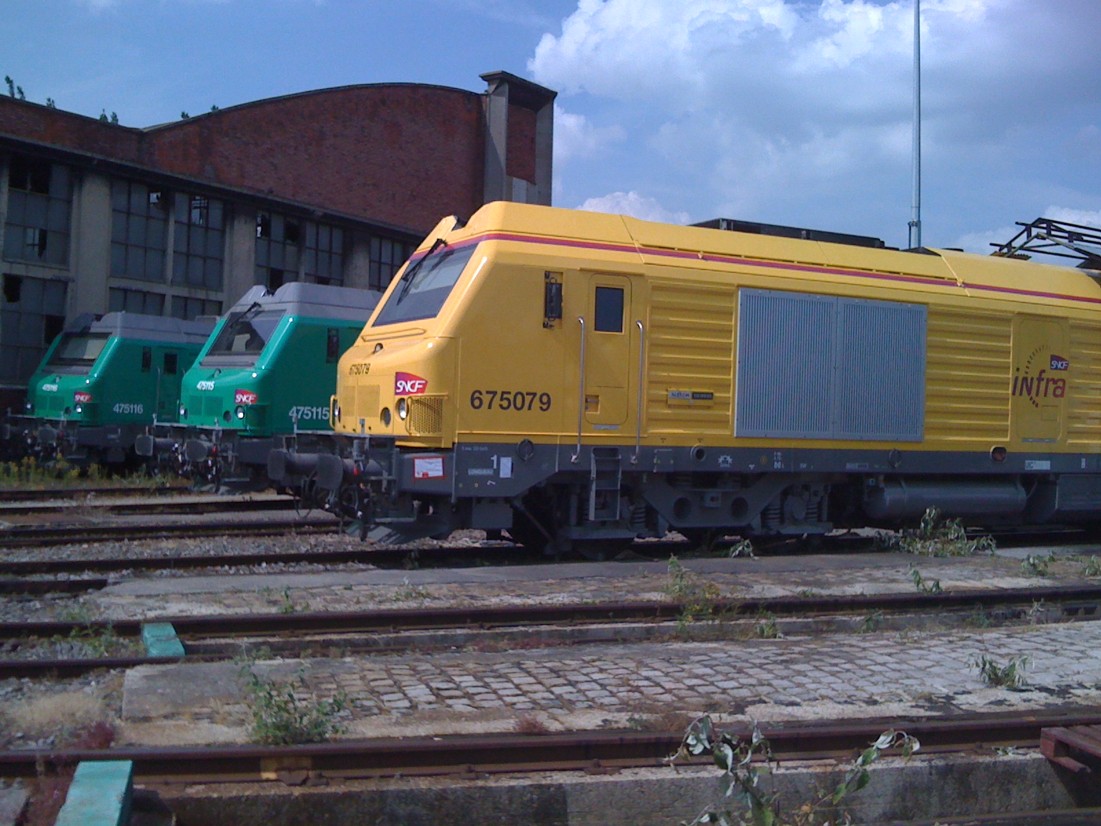 BB675079